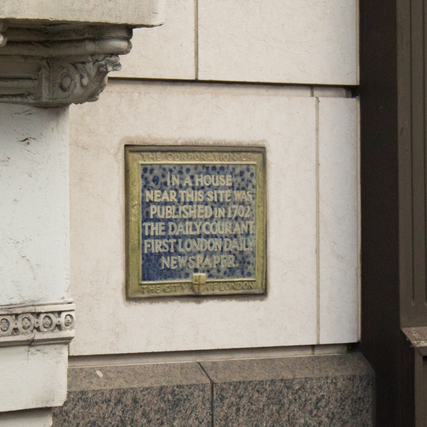 London, England 2011